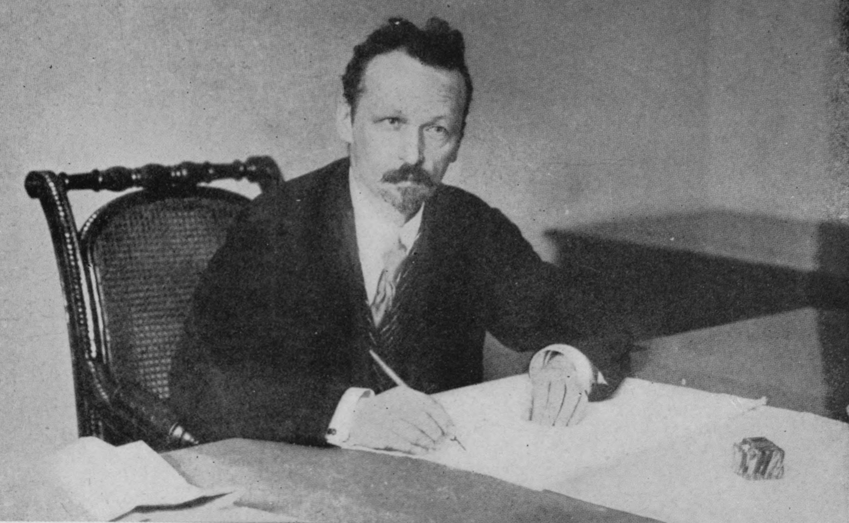 Nikolai Podvoisky, first People's Commisar for Defense (November 1917-March 1918), a Left Social Revolutionary and critic of Lenin.